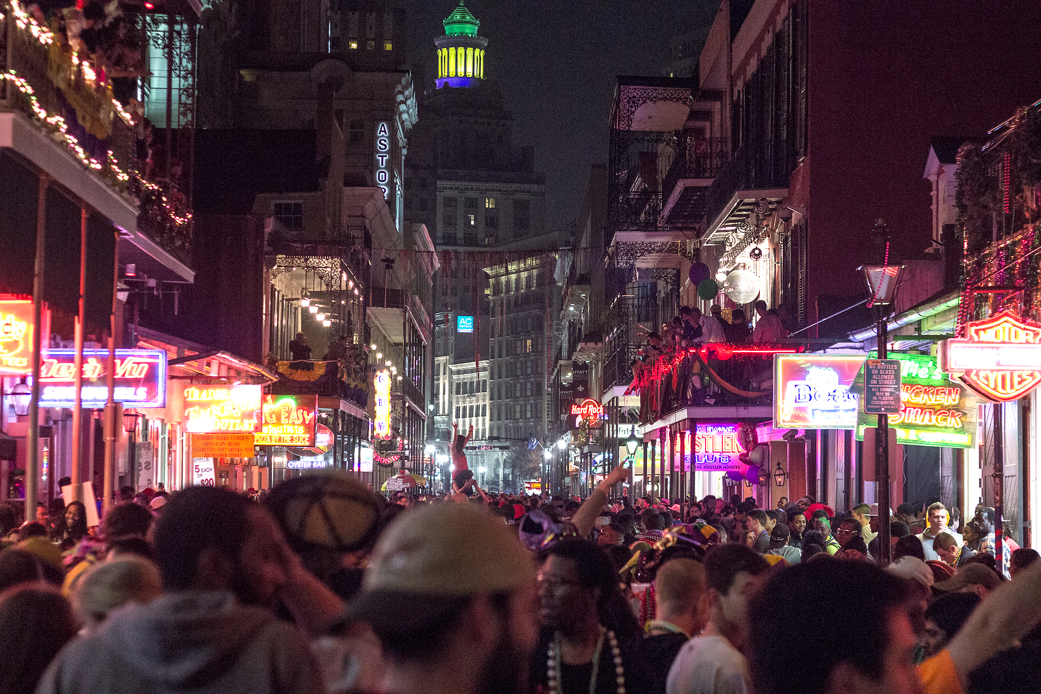 Bourbon Street, French Quarter, New Orleans, during Mardi Gras